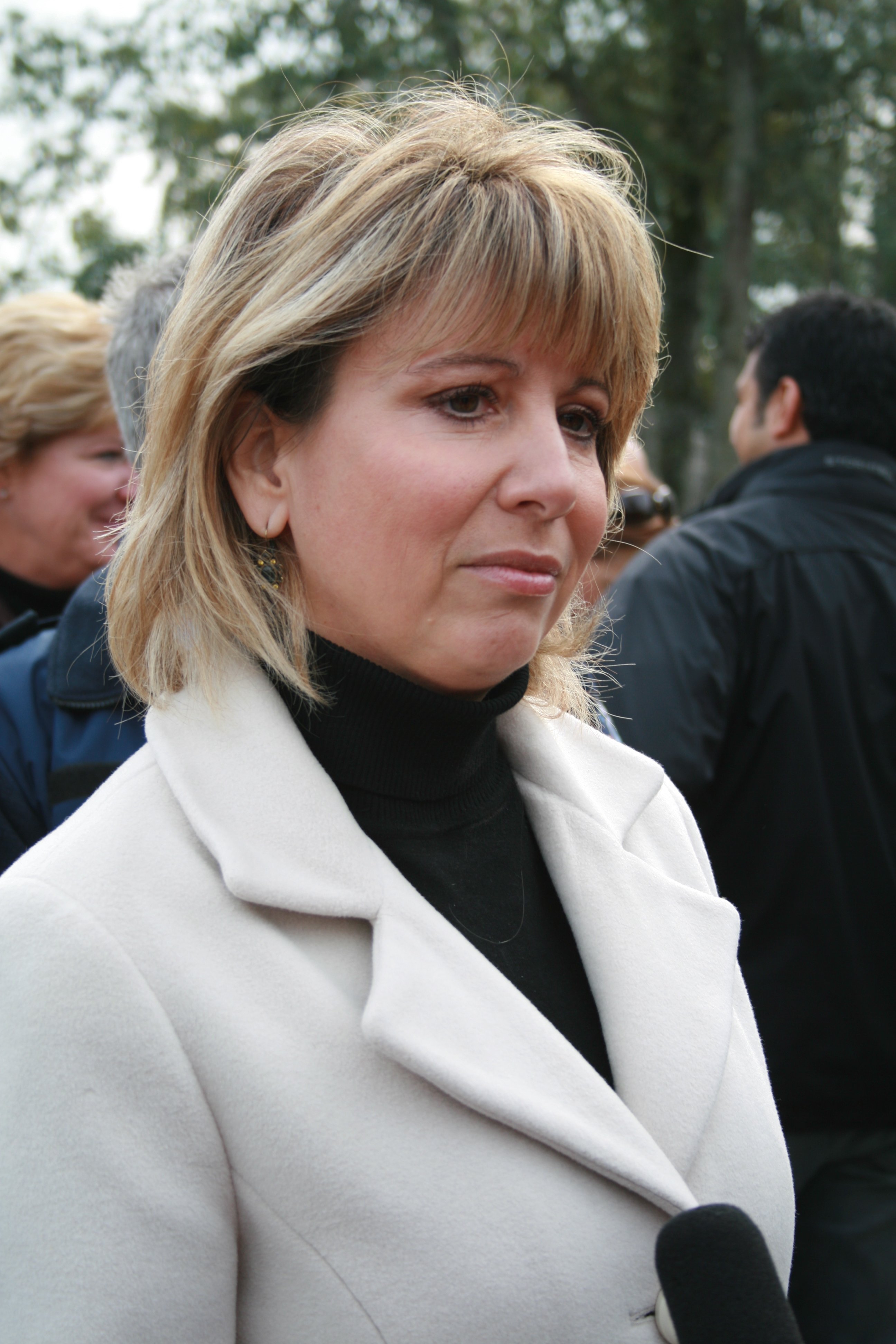 Dianne Watts, the then serving Mayor of the City of Surrey, British Columbia at a press conference in October 2008.